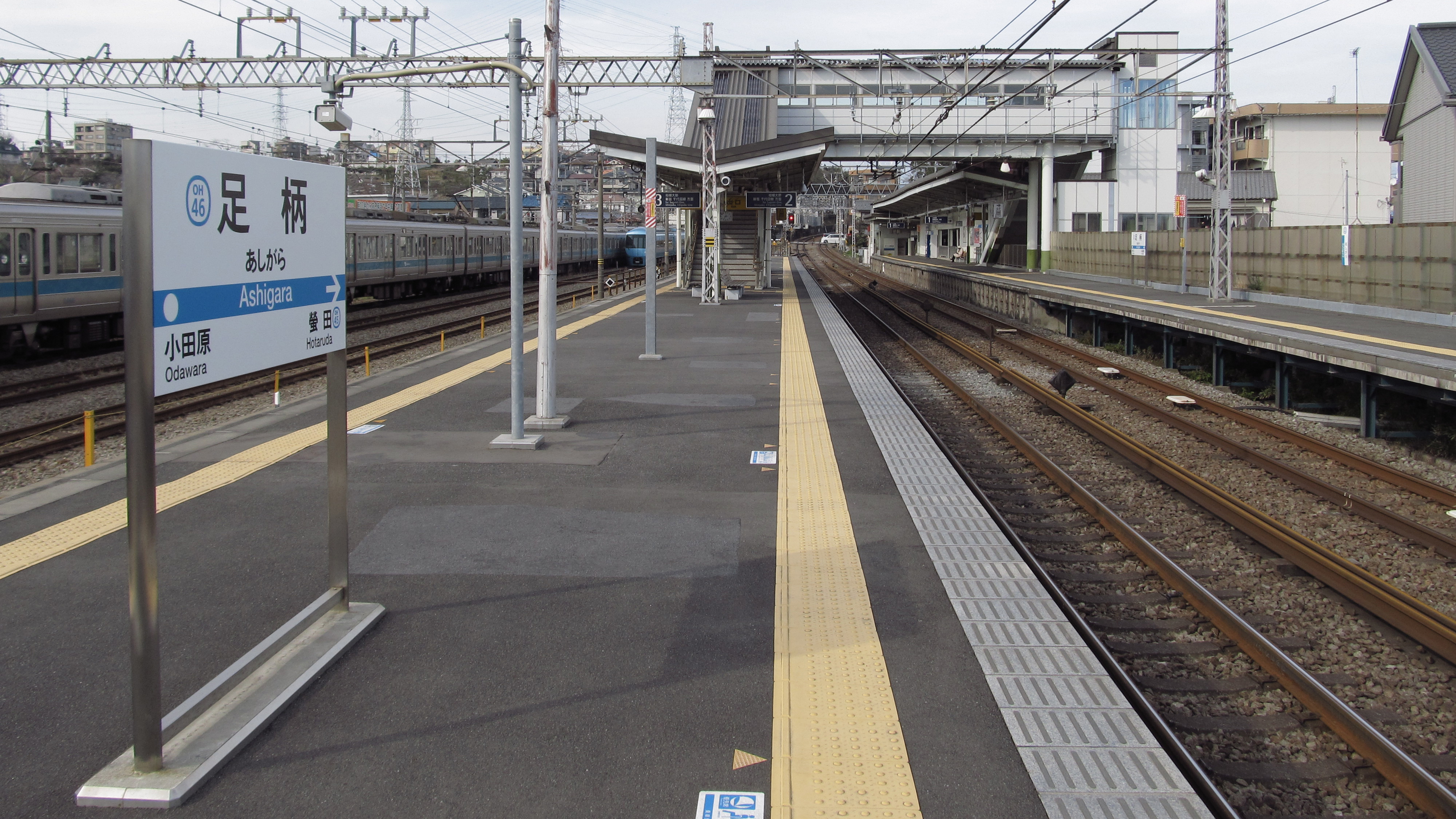 The platforms at Ashigara Station on the Odakyū Electric Railway Odawara Line in Odawara city, Kanagawa, Japan